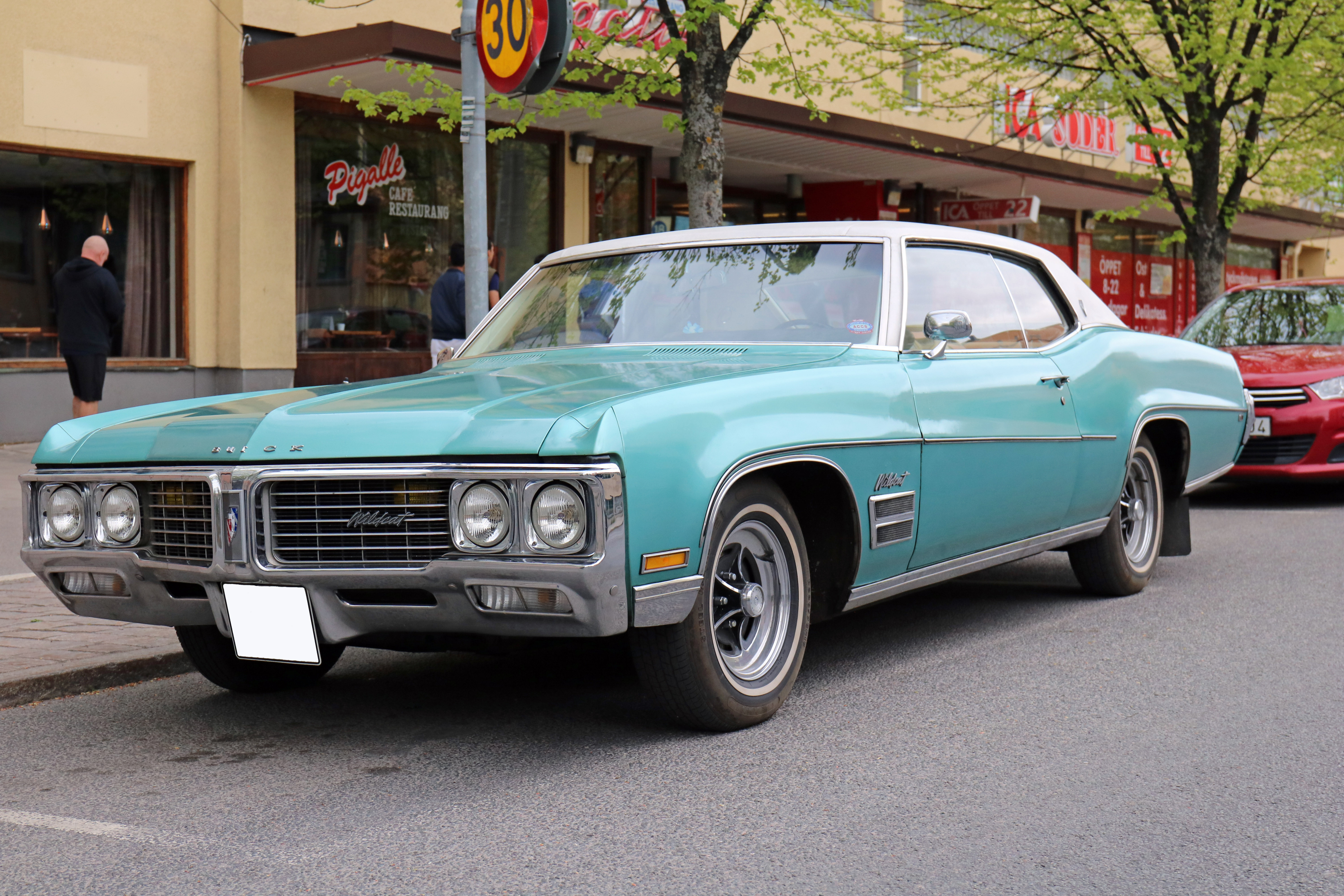 1970 Buick Wildcat Custom Coupé